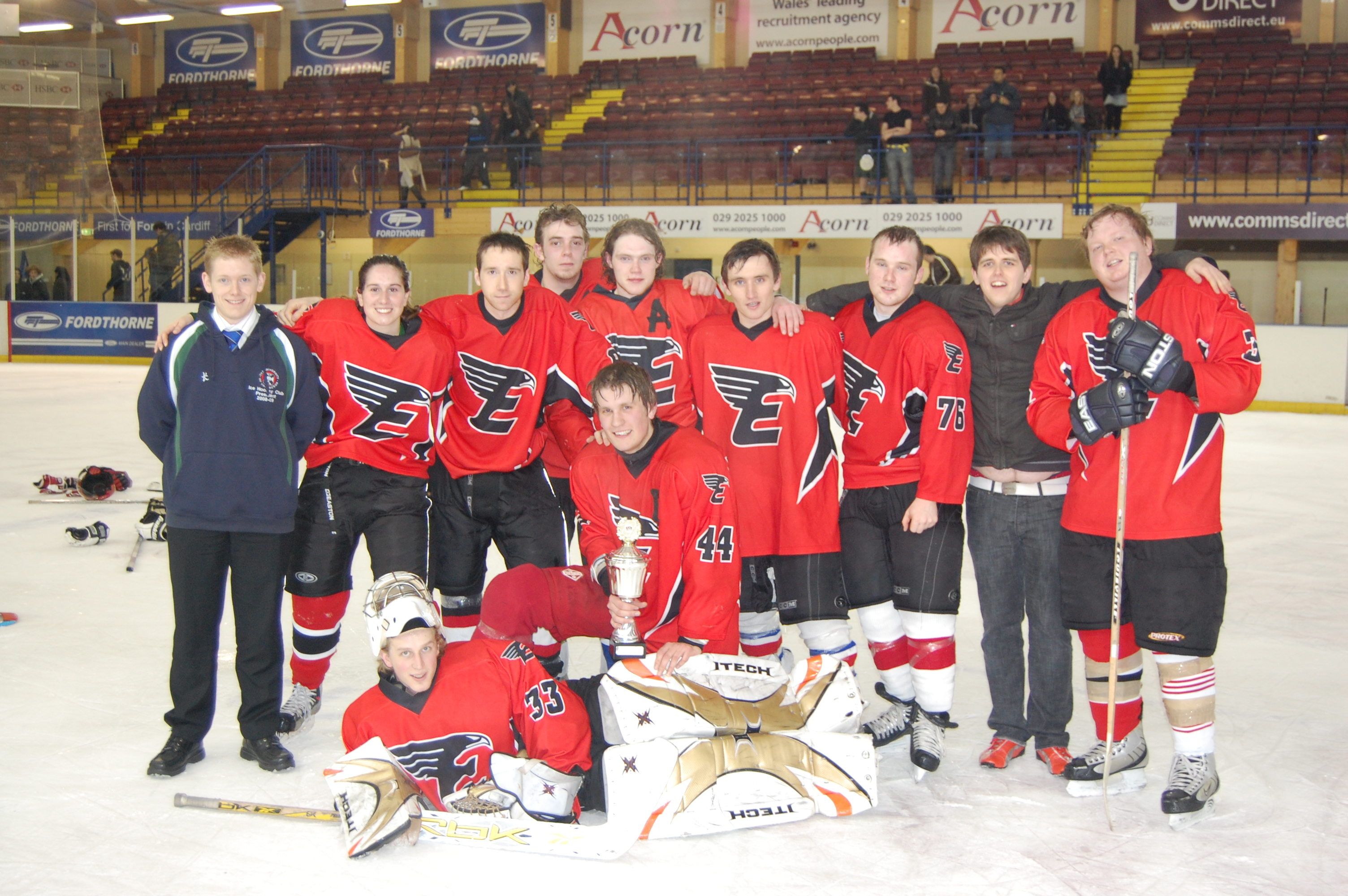 The Edinburgh Eagles with the Celtic Cup after their victory in 2009